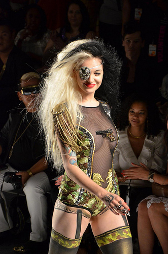 Porcelain Black at the Falguni and Shane Peacock Spring 2011 fashion show.